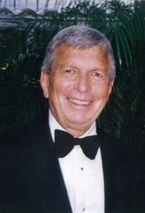 Larry Levine in front of his home in Sarasota 2005.